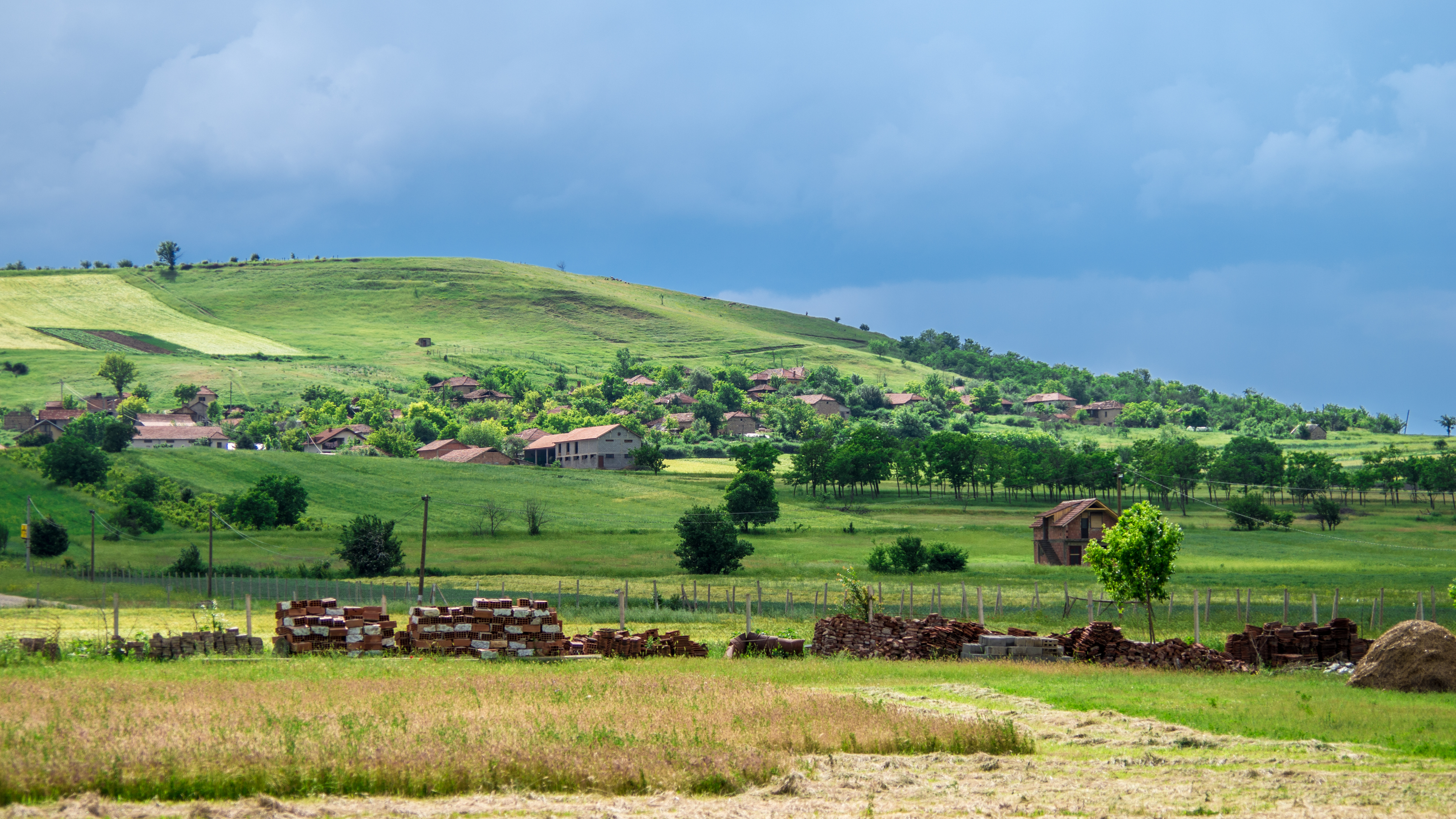 Panoramic photo of the village Vojnik